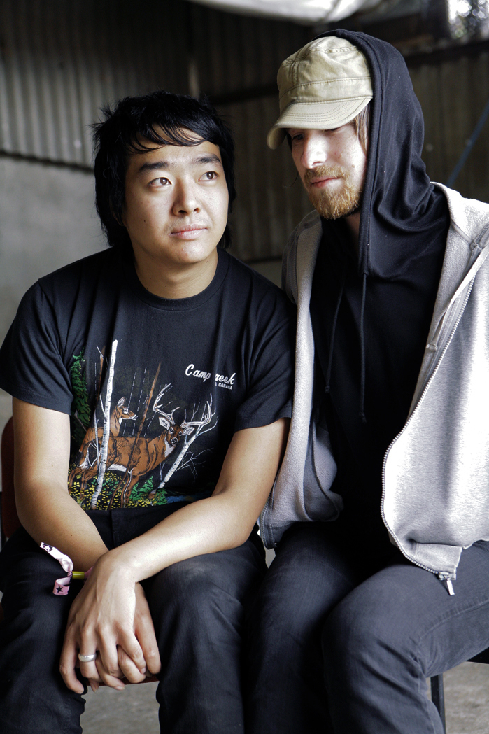 British electronic group Fuck Buttons